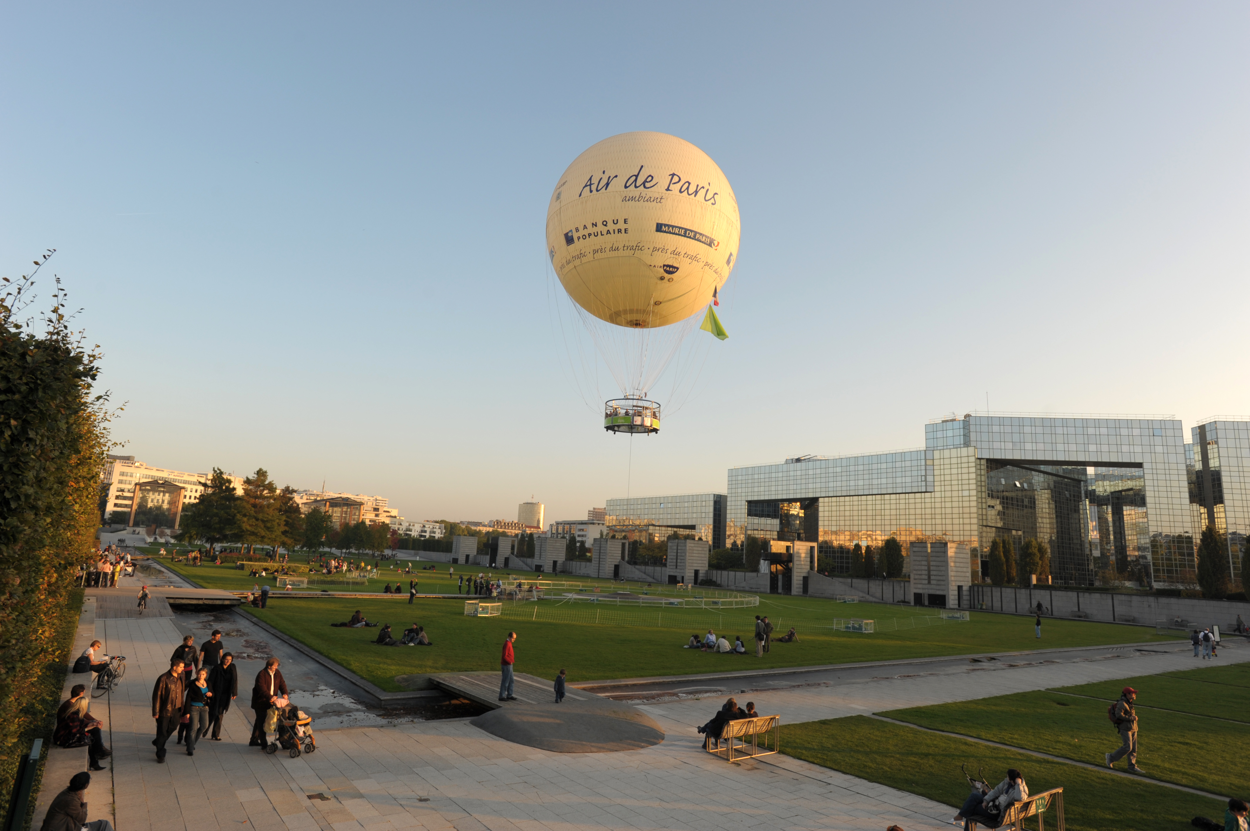 "Ballon de Paris", France